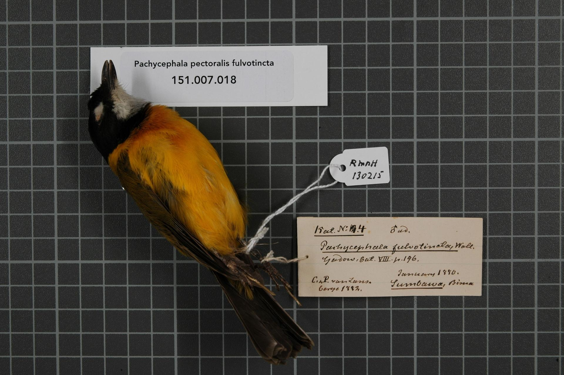 Pachycephala pectoralis fulvotincta Wallace, 1864